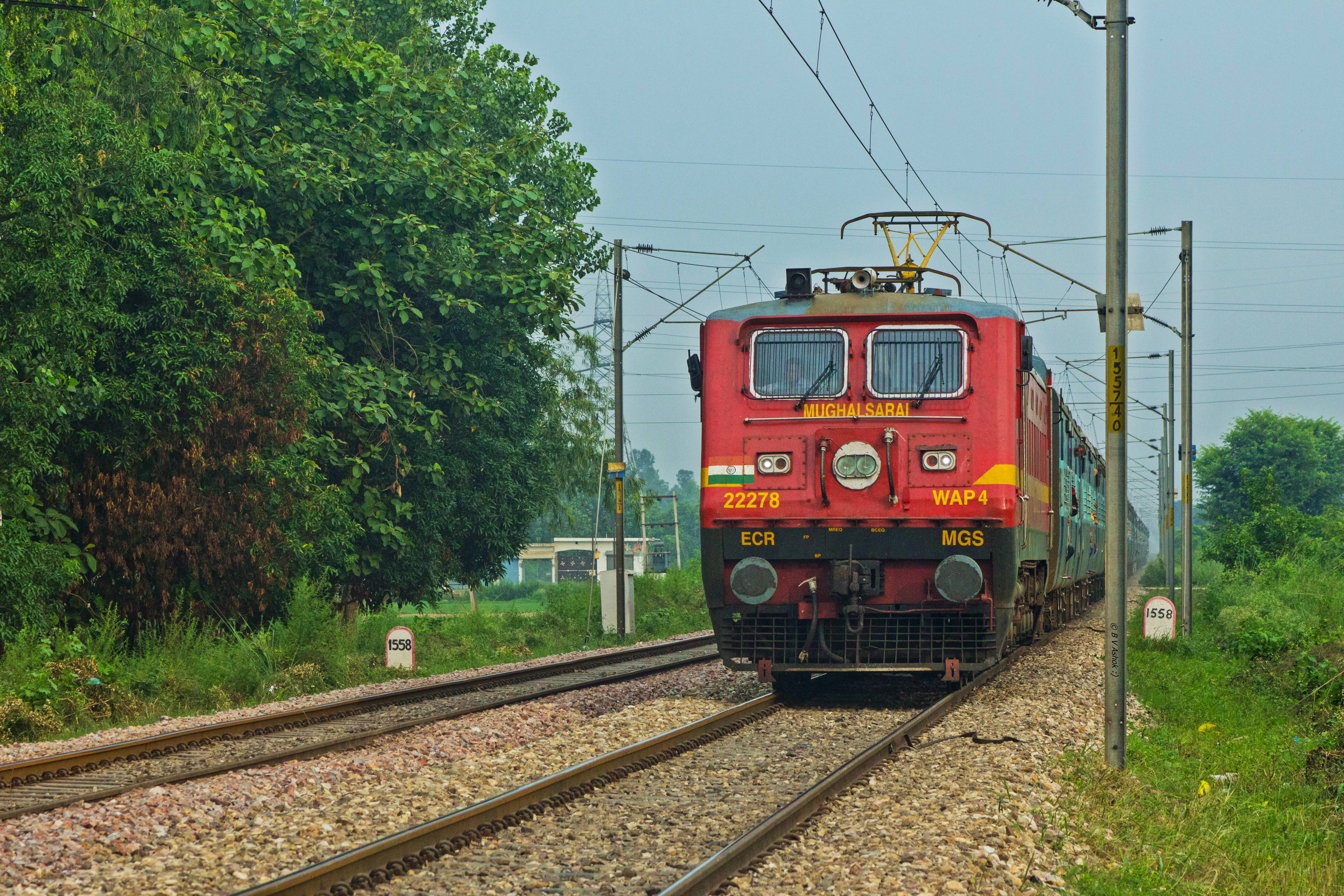 MGS WAP-4 22278 cruising towards Roorkee for its scheduled halt with 13152 Jammu Tawi - Kolkata Express....